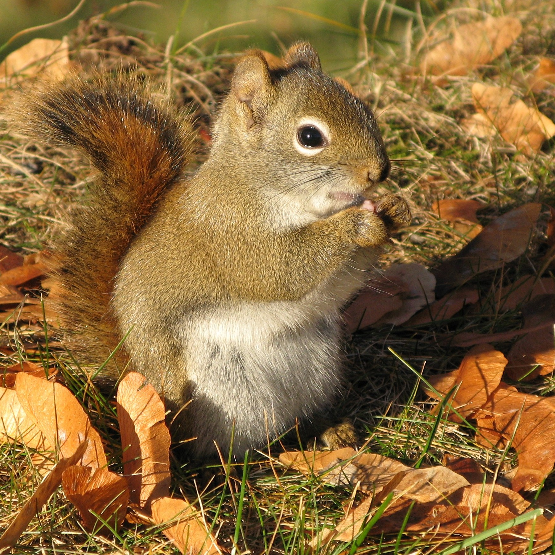 The following is the author's description of the photograph quoted directly from the photograph's Flickr page. "Tamiasciurus hudsonicus Écureuil roux nord-américain -- North American red squirrel "